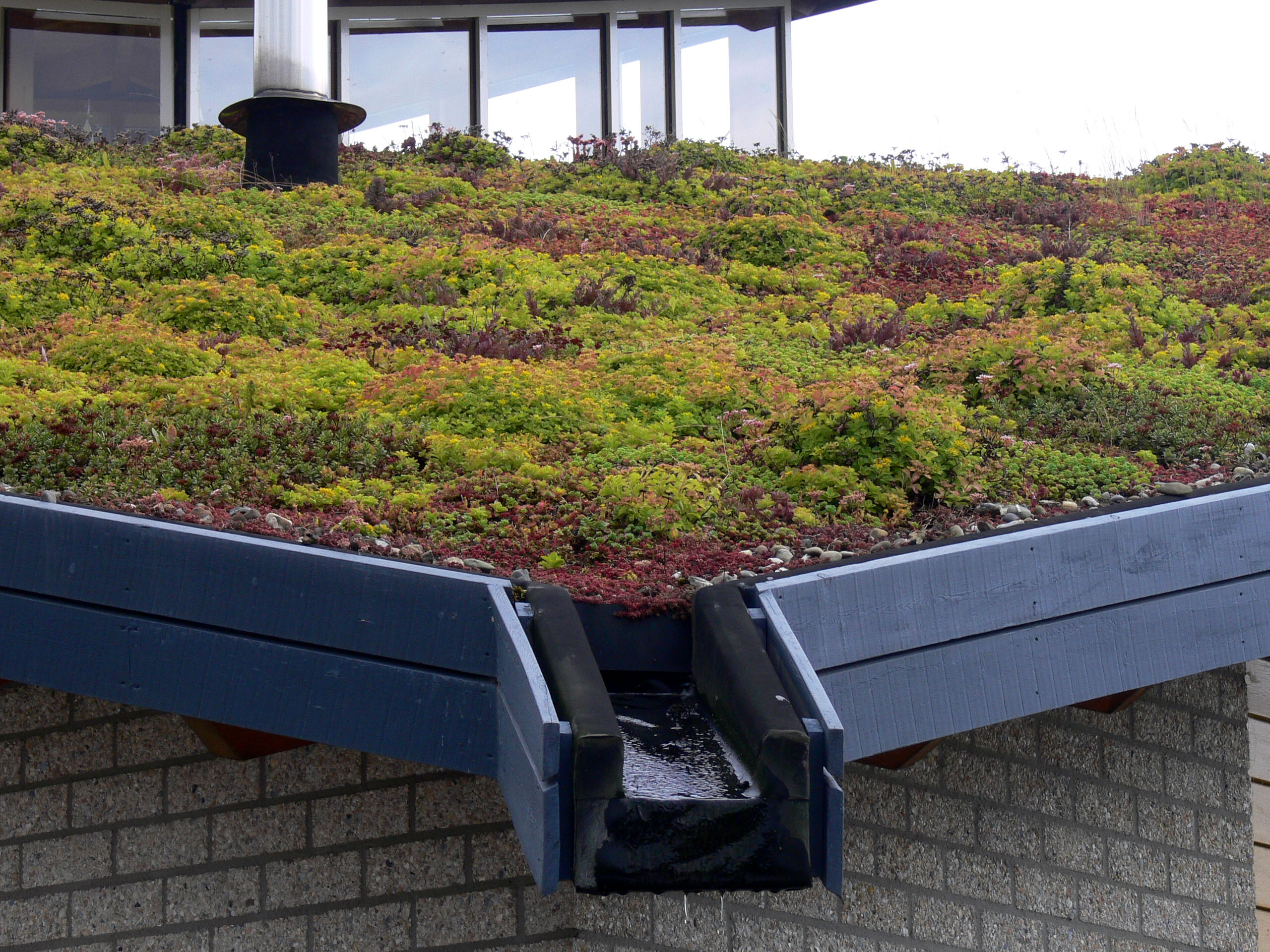 "Green roof" in E.V.A. Lanxmeer district (a "green distric" named Lanxmeer, built at Culemborg, The Netherlands), wich is a recent (1994-2009) district (semi-public eco-building) of approximately 250 ecological houses, several offices and a urban farm. The project is based on "Sustainable Implant" with a spatial combinaison of natural systems, technical approach of integrated waste (wastewater) / energy system and écological and social purposes, for an urban neighborhood. The district is in an ecologically sensitive area (former drinking waterextraction and retention area). The conception of this district is based on permaculture, and organic design, a small biogas installation (able to treate black water and organic waste and garden & park waste), a combined Heat Power. Some houses are in closed greenhouse. A semi-public building (the ‘EVA Centre) should yet be made, based on the Living Machine concept.